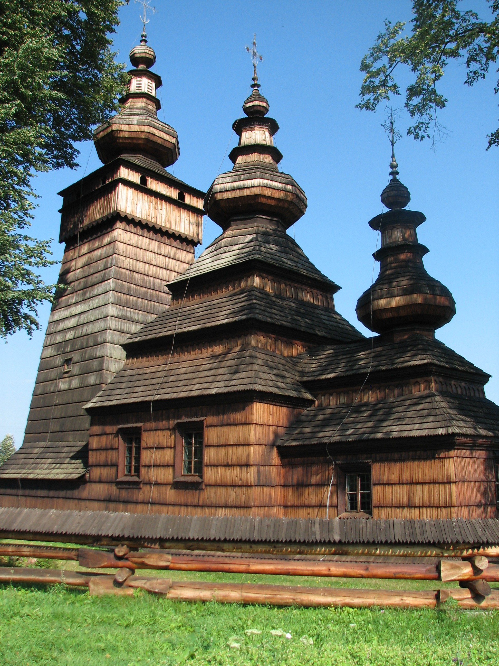 St Paraskeva church in Kwiatoń, Poland.